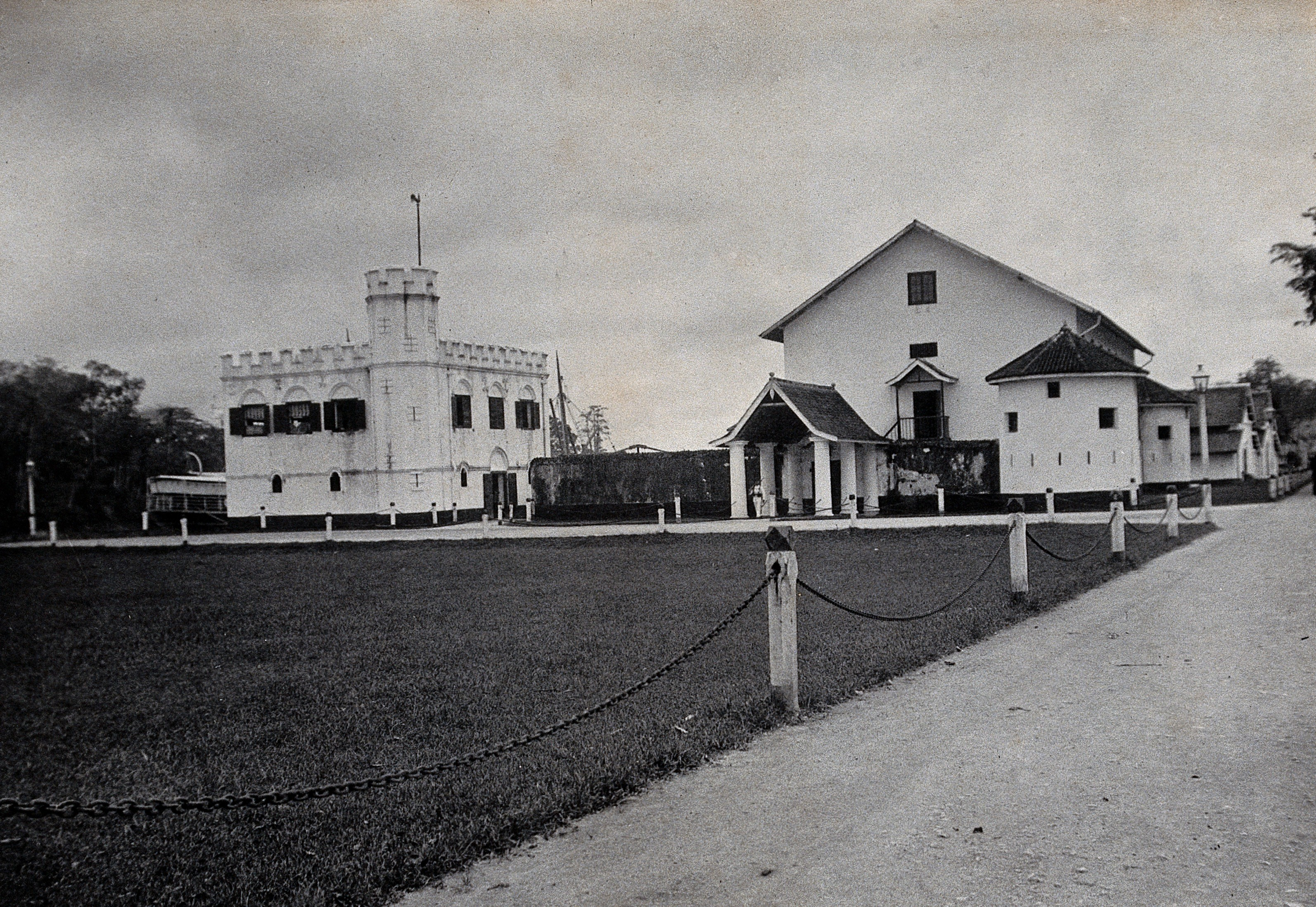 The Square Tower building located at the Kuching waterfront. It was built in 1879, the same year as Fort Margherita was built. Orginially it was used as a prison but it was later turned into a fortress and later a dance hall. Today, the Square Tower is used as a multimedia information centre with a theatre for video presentations for the tourists. Iconographic Collections Keywords: Anthropology; Malaysia; Charles Hose; Ethnography; Borneo